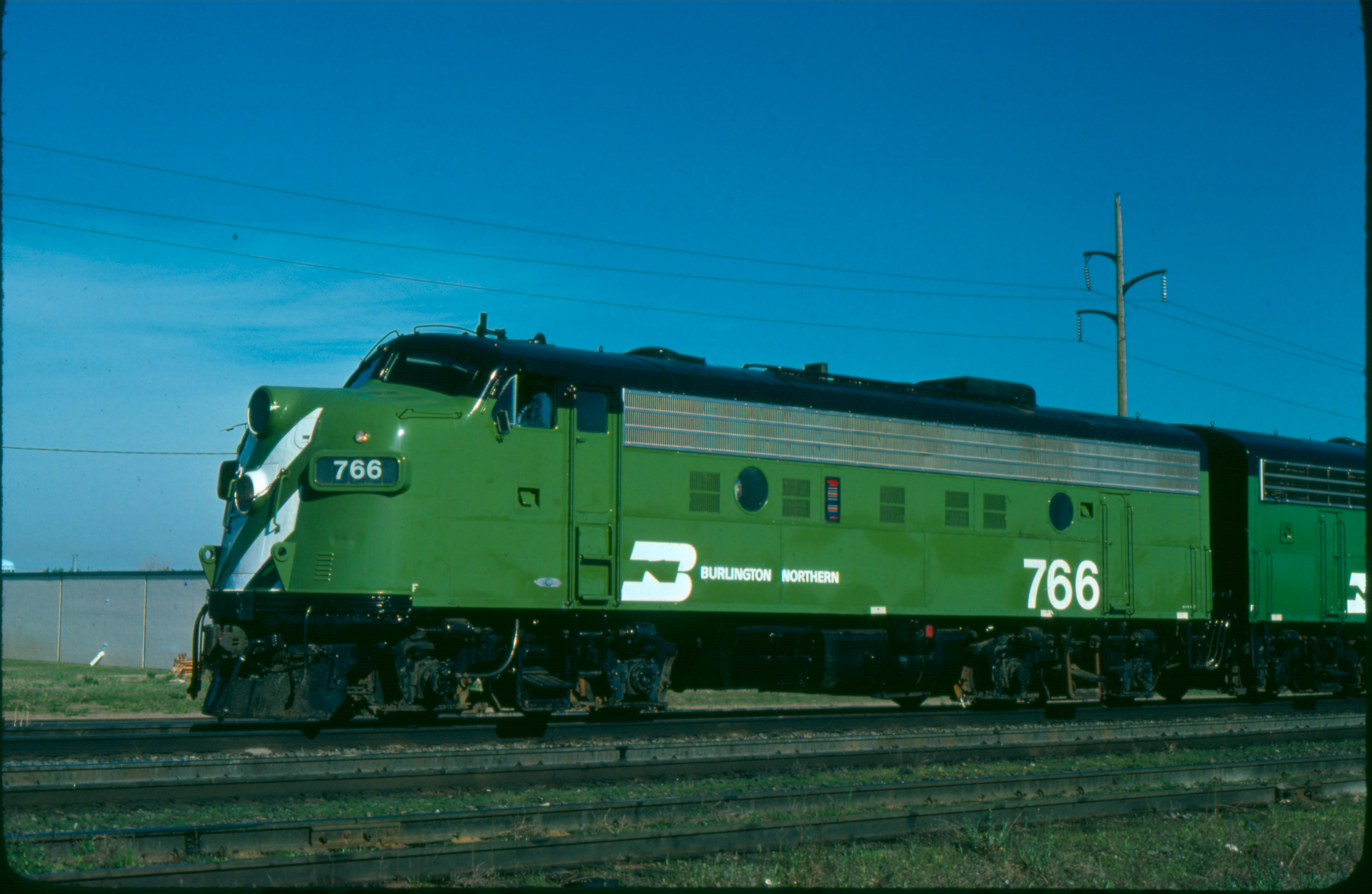 Burlington Northern #766 EMD F9